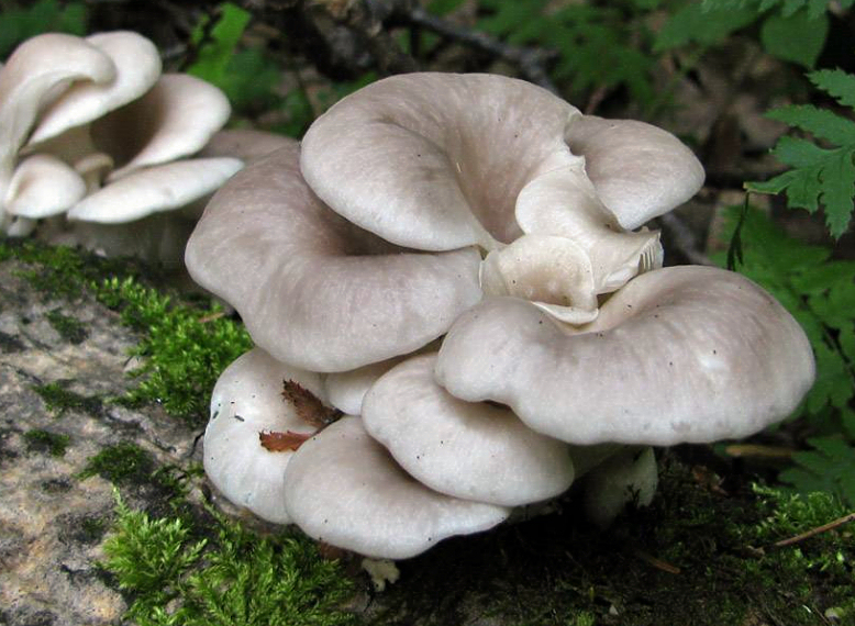 Pleurotus cornucopiae Location: Krasnogorsk, Moscow oblast, Russia For more information about this, see the observation page at Mushroom Observer.